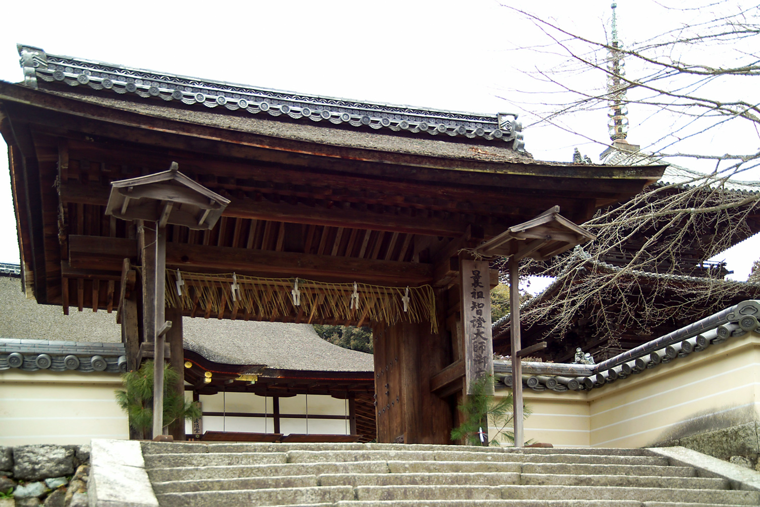 This gate is the Shikyaku-mon, the four-legged gate at Mii-dera, a Buddhist temple in Otsu, Shiga Prefecture, Japan. Beyond it is the three-story pagoda. I took the photo and contribute my rights in it to the public domain; individuals and organizations retain rights to images in it.